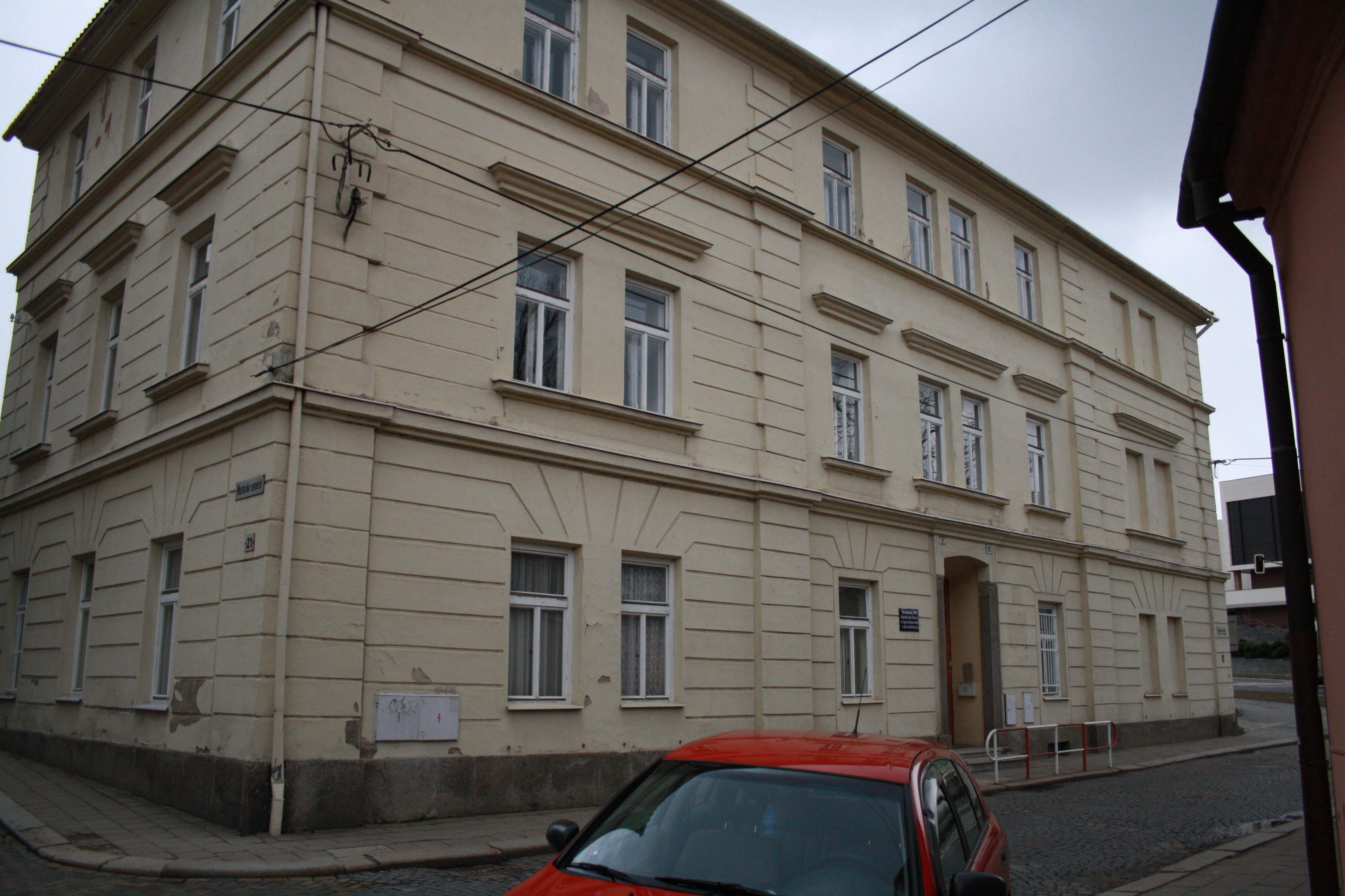 Former building of High school of health in Třebíč, Czech Republic.